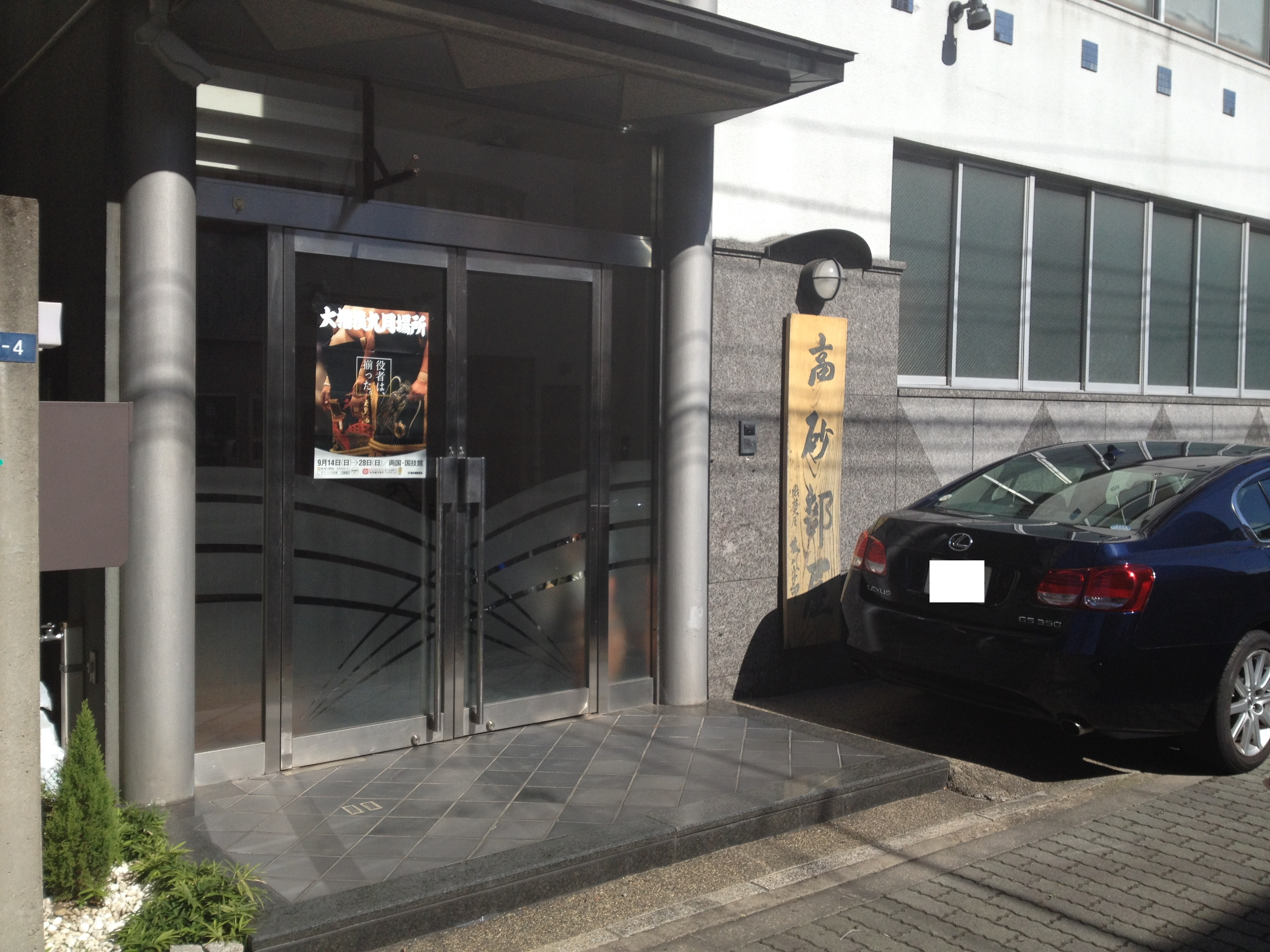 Front door of this sumo stable in Ryogoku.